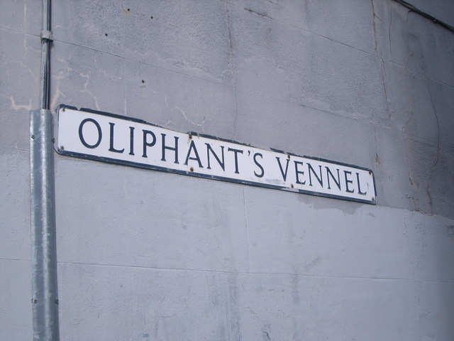 Oliphant's Vennel Would you want to live in an Oliphant's Vennel?